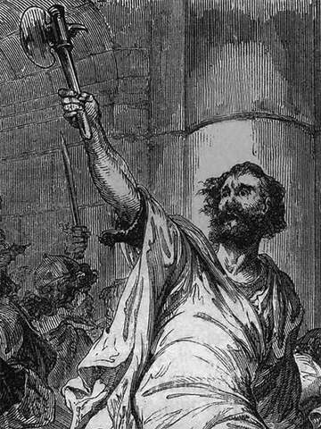 Viking Leader Hasting (Hastein) during his raid against Luna (Italy) anno 859, detail